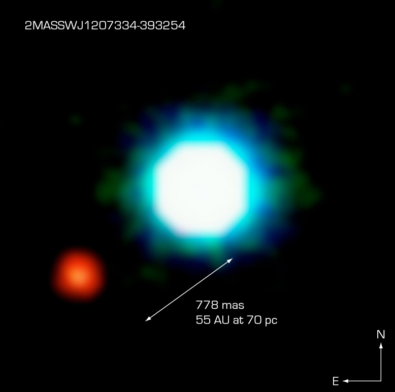 Foto subida en remplazo de Imagen:First_Exoplanet_picture.jpg, subida en fecha 9 oct, 2004, accidentalmente borrada. Licencia de uso libre con atribución al European Southern Observatory: ESO Press Photos may be reproduced, if credit is given to the European Southern Observatory. Fuente: Categoría:Imágenes con condiciones de uso